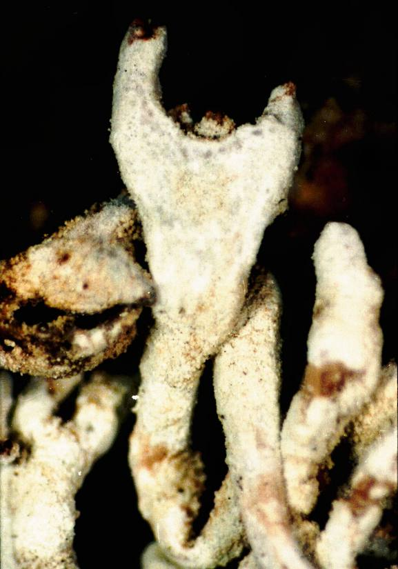 Cladonia sulphurina (Michaux) Fr., 1831 [Syn. Cladonia gonecha (Ach.) Asahina, 1939] (photograph of a herbarium specimen taken through a dissecting microscope (x20) showing tips of podetia) Growing on rich soil on margin of swamp at Evergreen Beach, E side US-23 off Spen Road, Presque Isle County, Michigan, USA; collected and identified by Richard E. Riefner (No. 81-465, 14 Jul 1981); specimen is now in the Lichen Herbarium of the New York Botanical Garden.